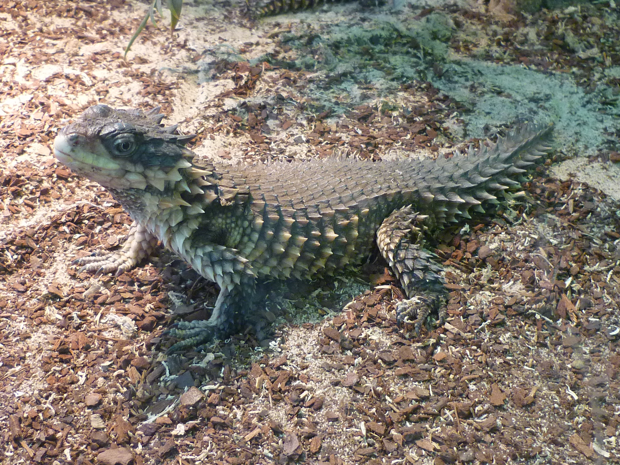 Cordylus giganteus, Photo taken at the TerraZoo Rheinberg, Germany